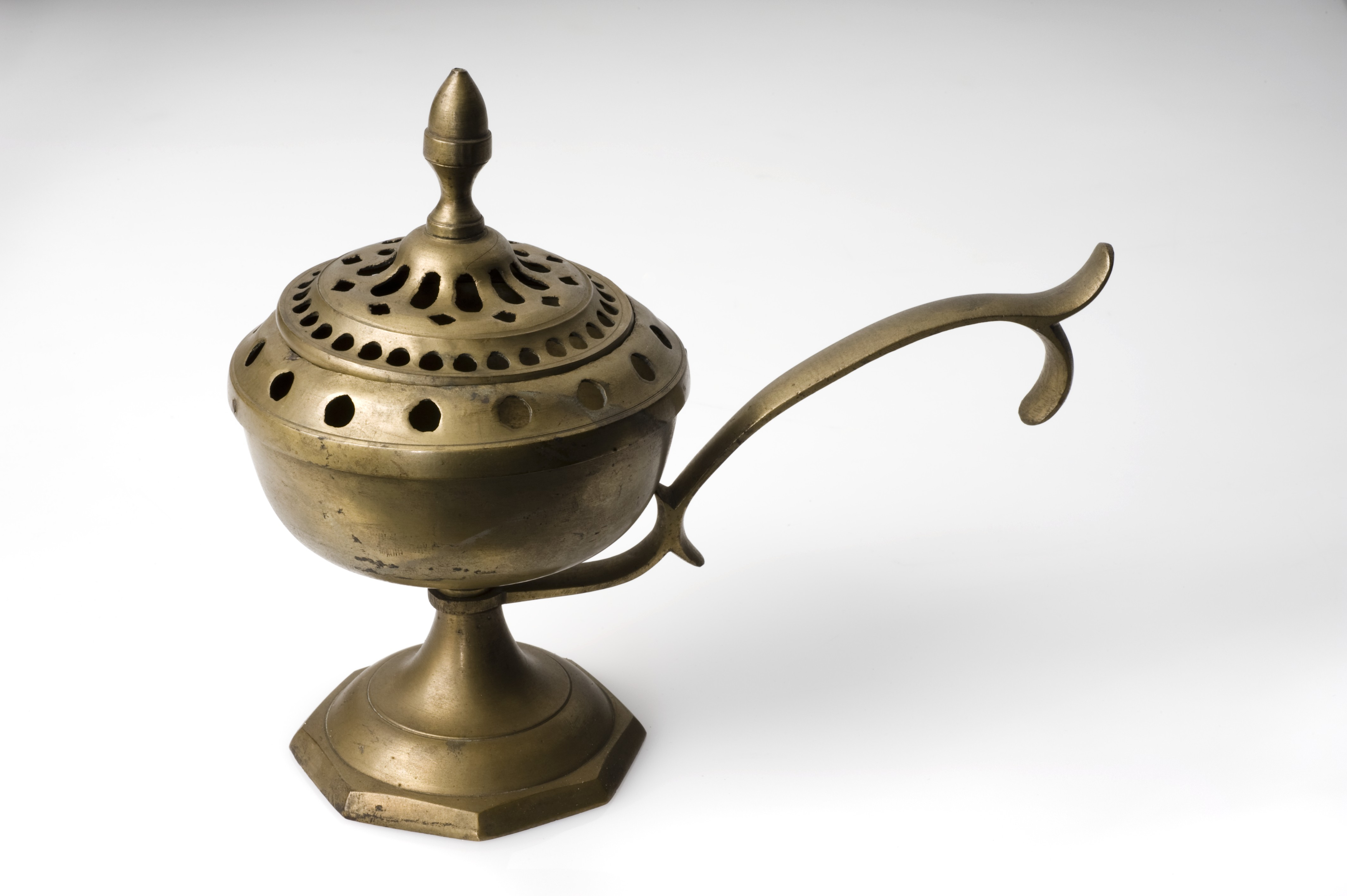 Sweet smelling herbs and plants were set alight inside this brass fumigator and the smoke given off was used to purify and disinfect the air around the person carrying the torch. It is based on the miasma theory, the idea that disease was caused by bad smells in the air from rotting animal matter, human waste and stagnant water. This theory of disease also appeared to give an explanation for why rubbish strewn poor areas with bad sanitation were more at risk from disease. This fumigator was probably made in Spain. maker: Unknown maker Place made: Spain Wellcome Images Keywords: fumigator